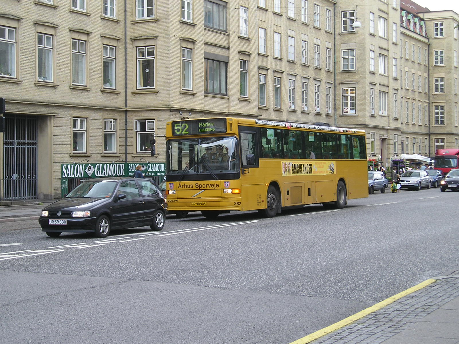 Århus Sporveje Volvo bus 382 on line 52 on Park Alle at Århus town hall.